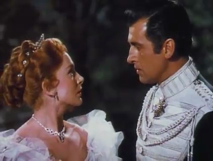 The Prisoner of Zenda, by Richard Thorpe (1952)